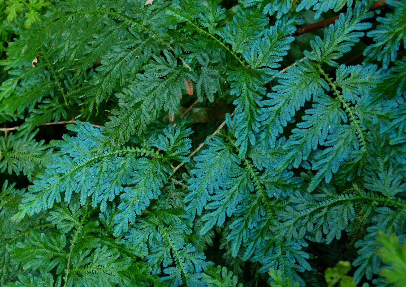 Selaginella willdenowii showing iridescence. In cultivation